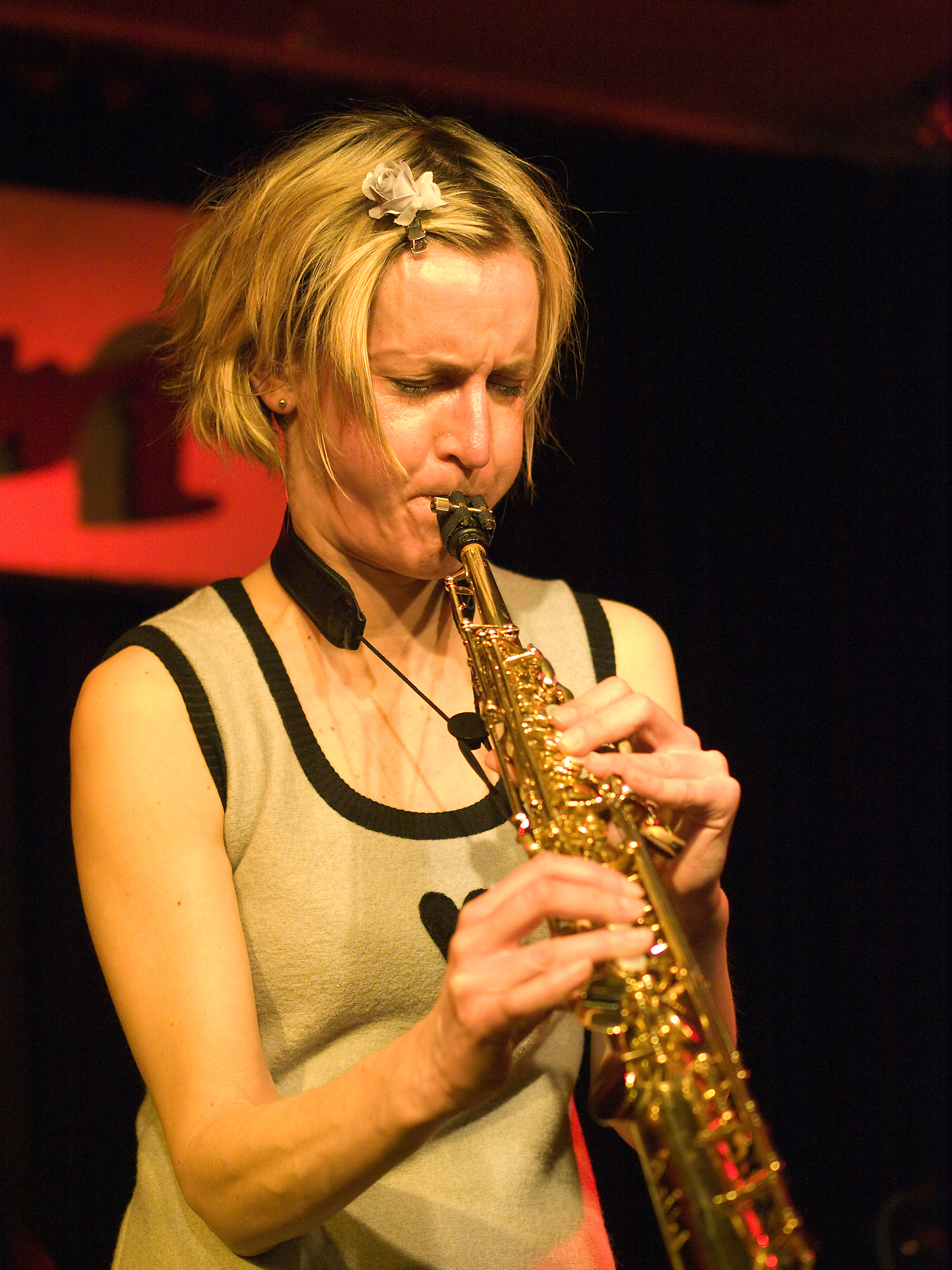 Frøy Aagre, Jazz saxophonist, Picture taken in Jazz Club Unterfahrt, Munich/Bavaria